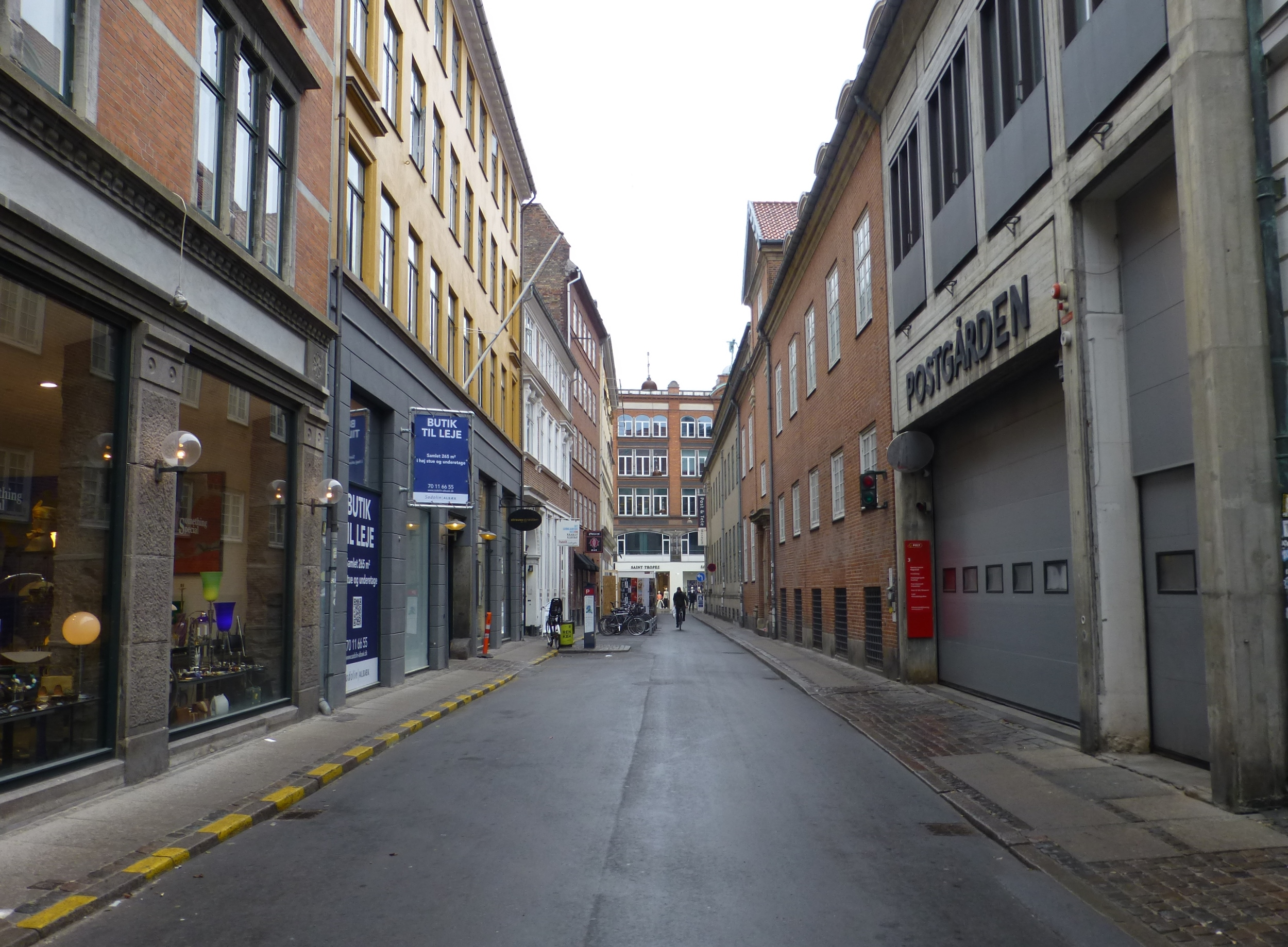 The street Løvstræde in Indre By in Copenhagen.